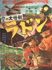 1956 Japanese movie poster for 1956 Japanese film Rodan (空の大怪獣 ラドン Sora no Daikaijū Radon).